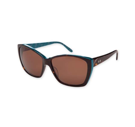 Le Saboteur by Tres Noir